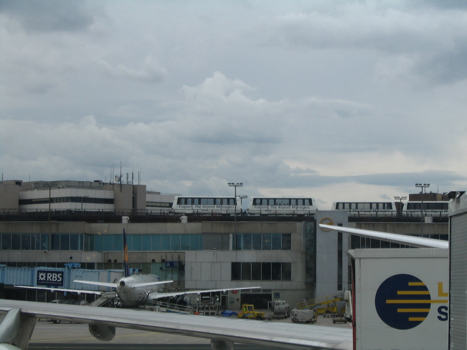 Two skytrains connecting concourse A and B of Terminal 1 of Frankfurt International Airport cross each other.